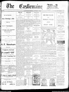 Front cover of newspaper Castlemaine Mail